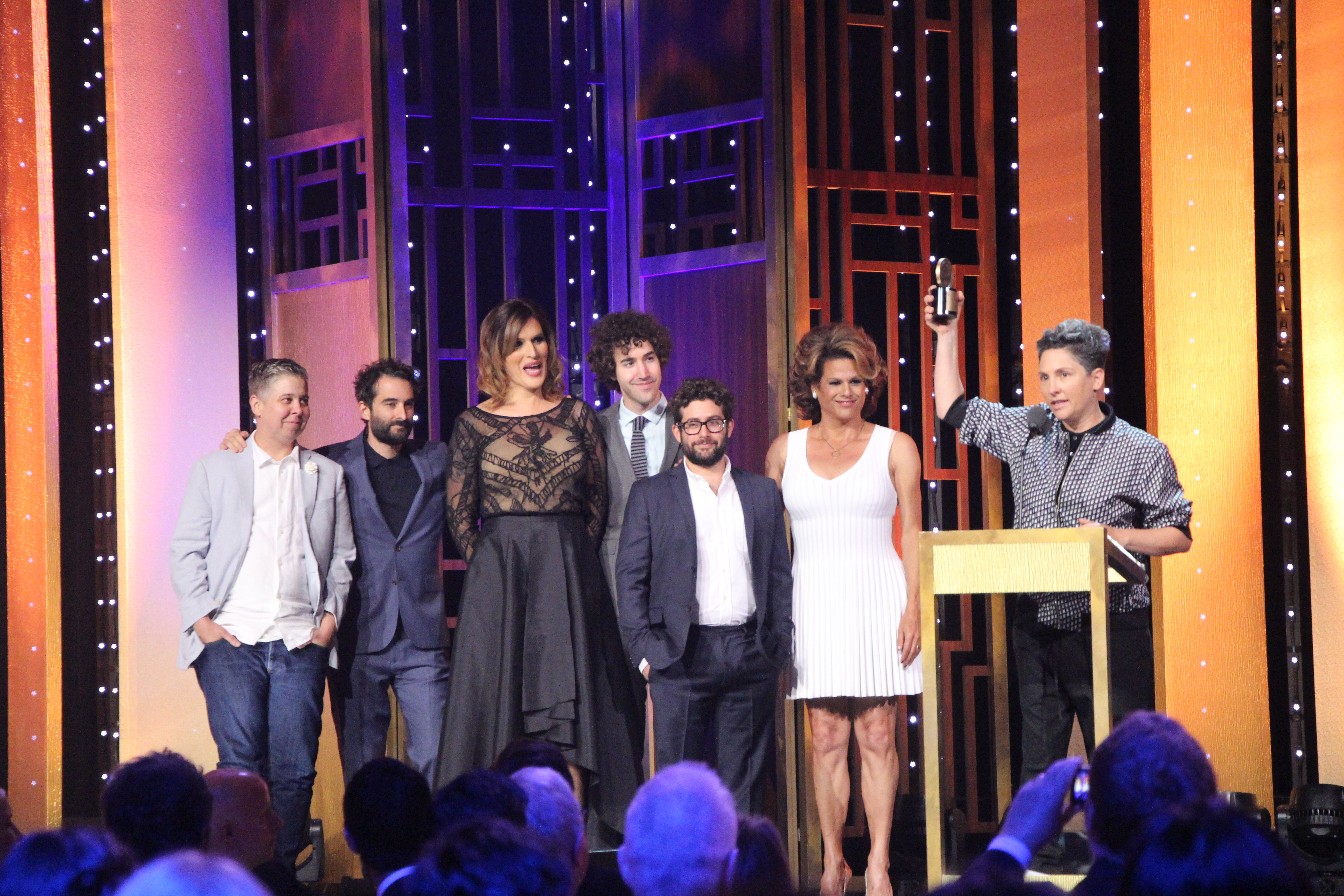 This photo includes the cast and crew of "Transparent," including Jay Duplass, Our Lady J, Ethan Kuperberg, Joe Lewis, Alexandra Billings, Ali Liebegott and Jill Soloway. (Photo/Sarah E. Freeman/Grady College, in New York City, Georgia, on Saturday, May 21, 2016)